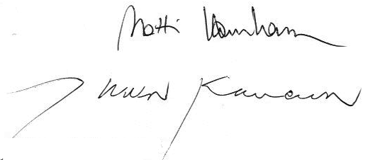 Lison Treaty - Final Act Signature by Finnish representatives